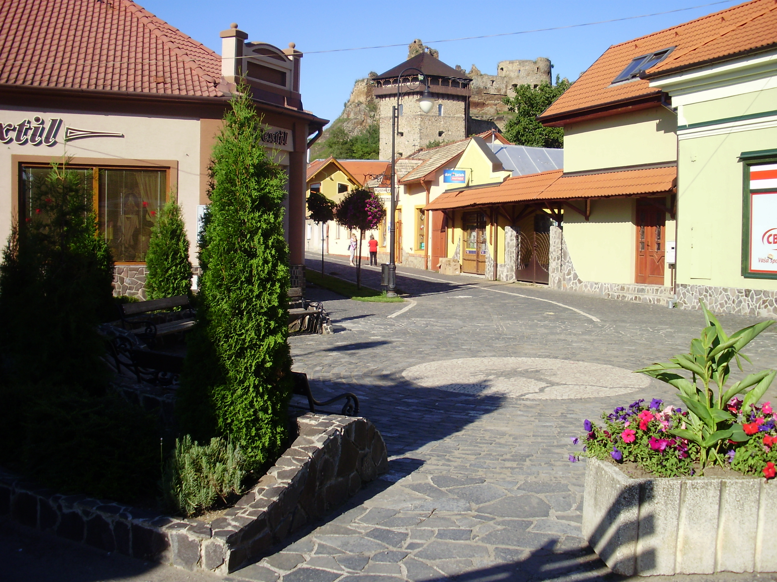 Podhradská Street Filakovo